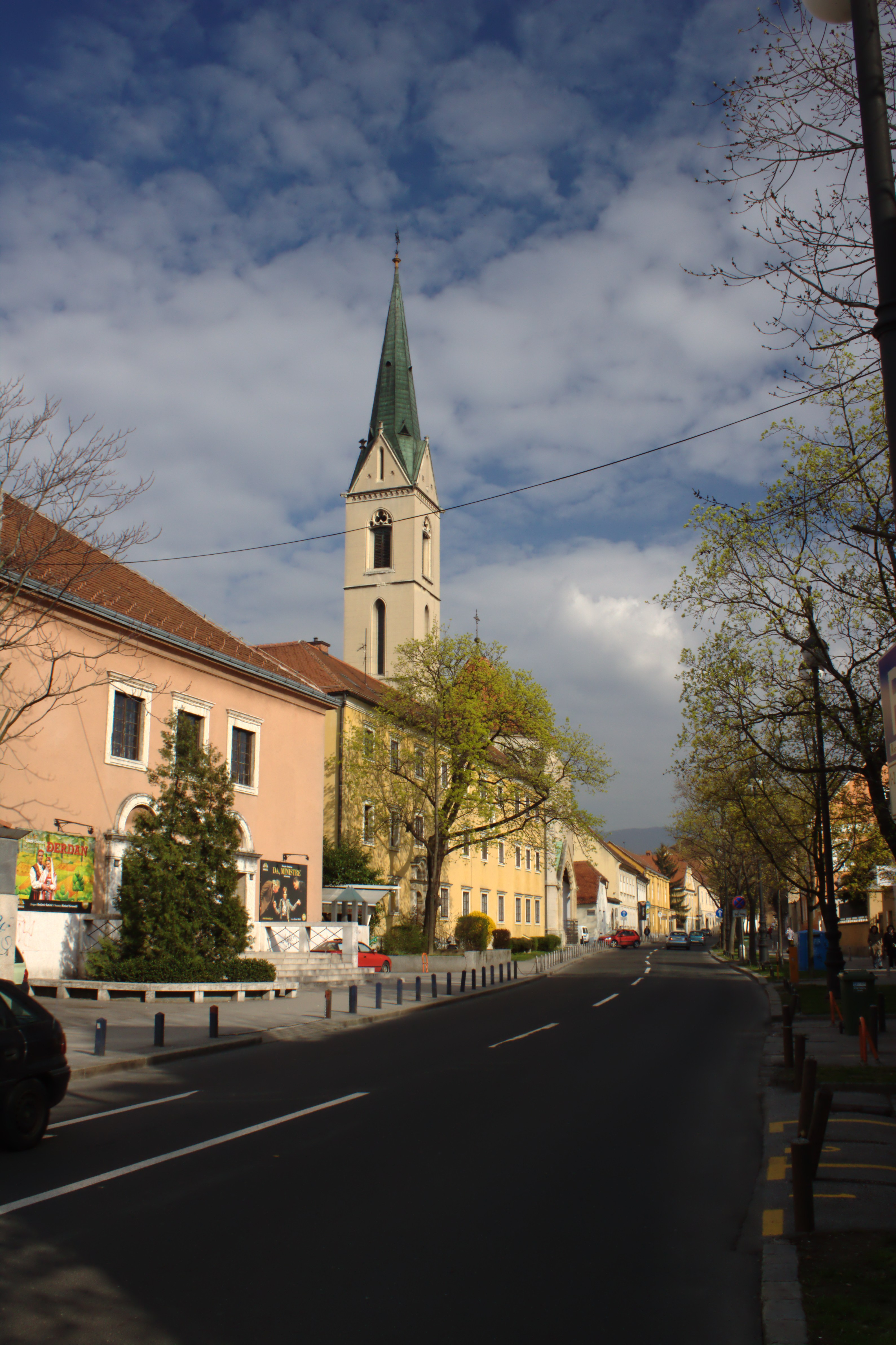 Kaptol, a street near the local cathedral; Zagreb, Croatia